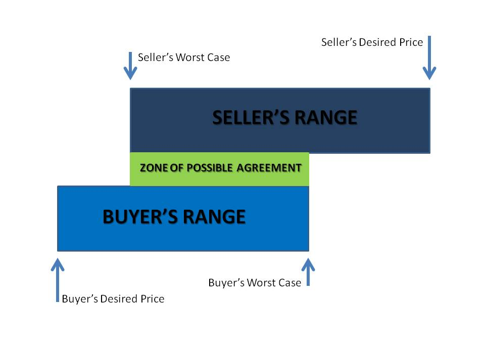 The zone of common interest between two parties where an agreement can be met.